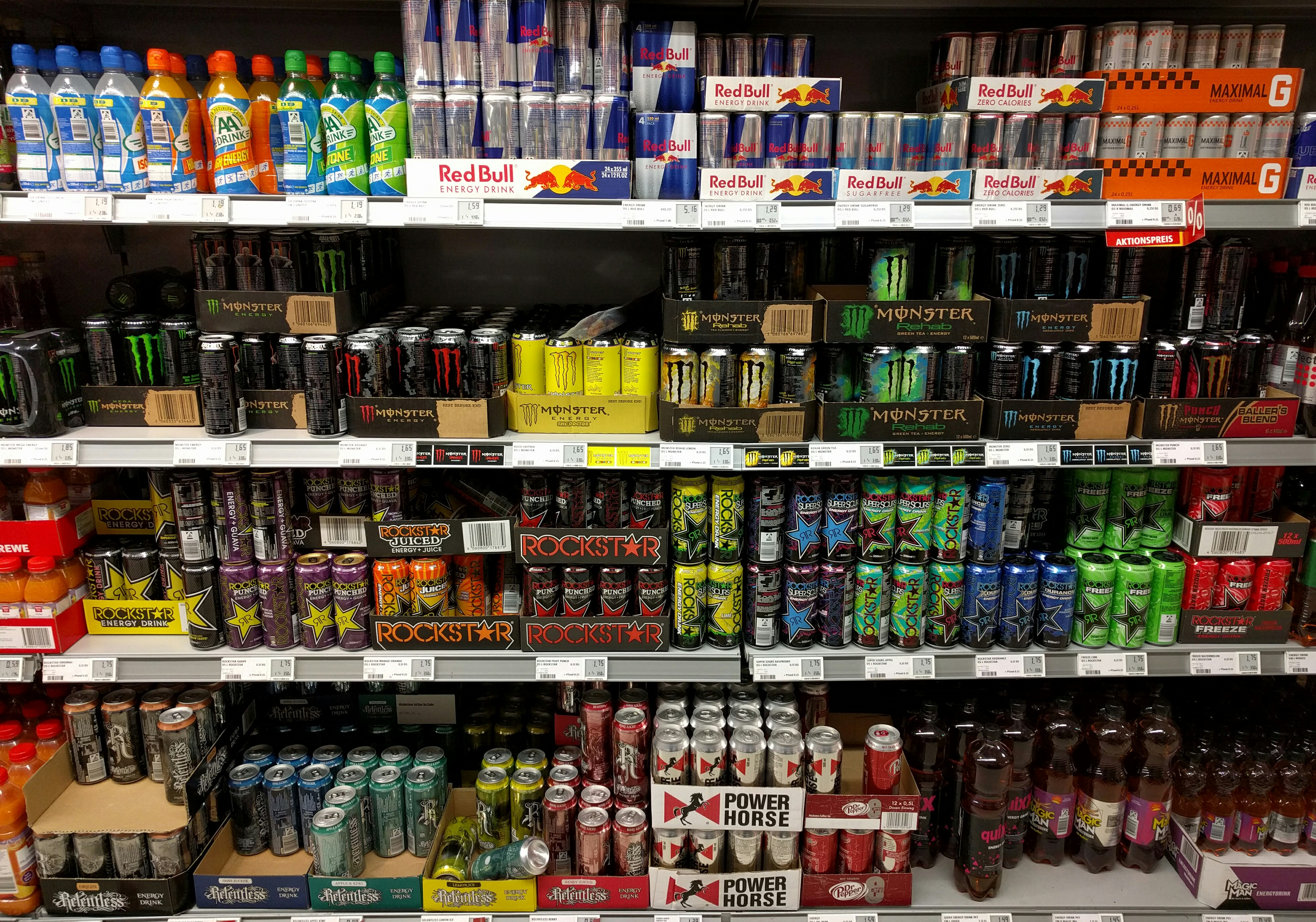 Energy Drinks in a supermarket in Germany.